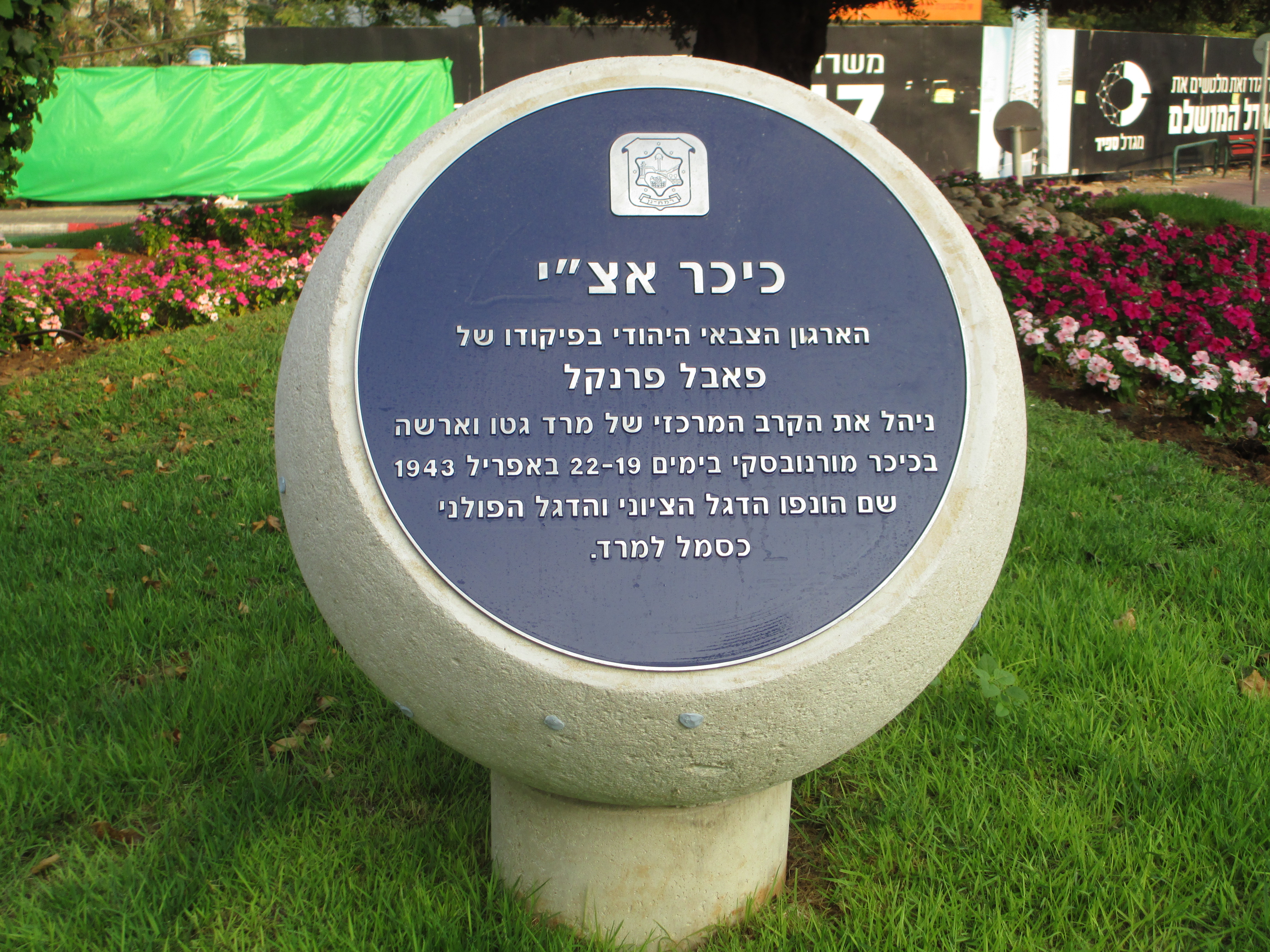 Jewish Military Union memorial in Ramat Gan